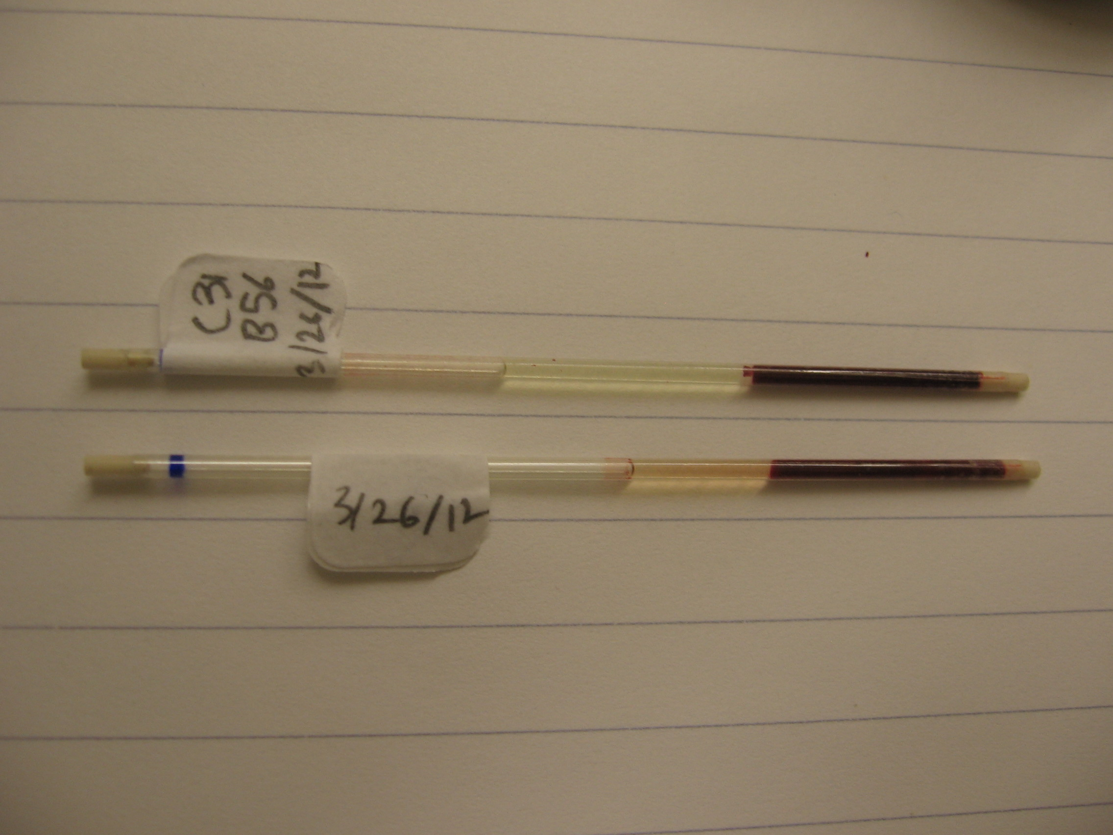 Bird hematocrits (blood spun down to separate red blood cells from plasma), Delaware